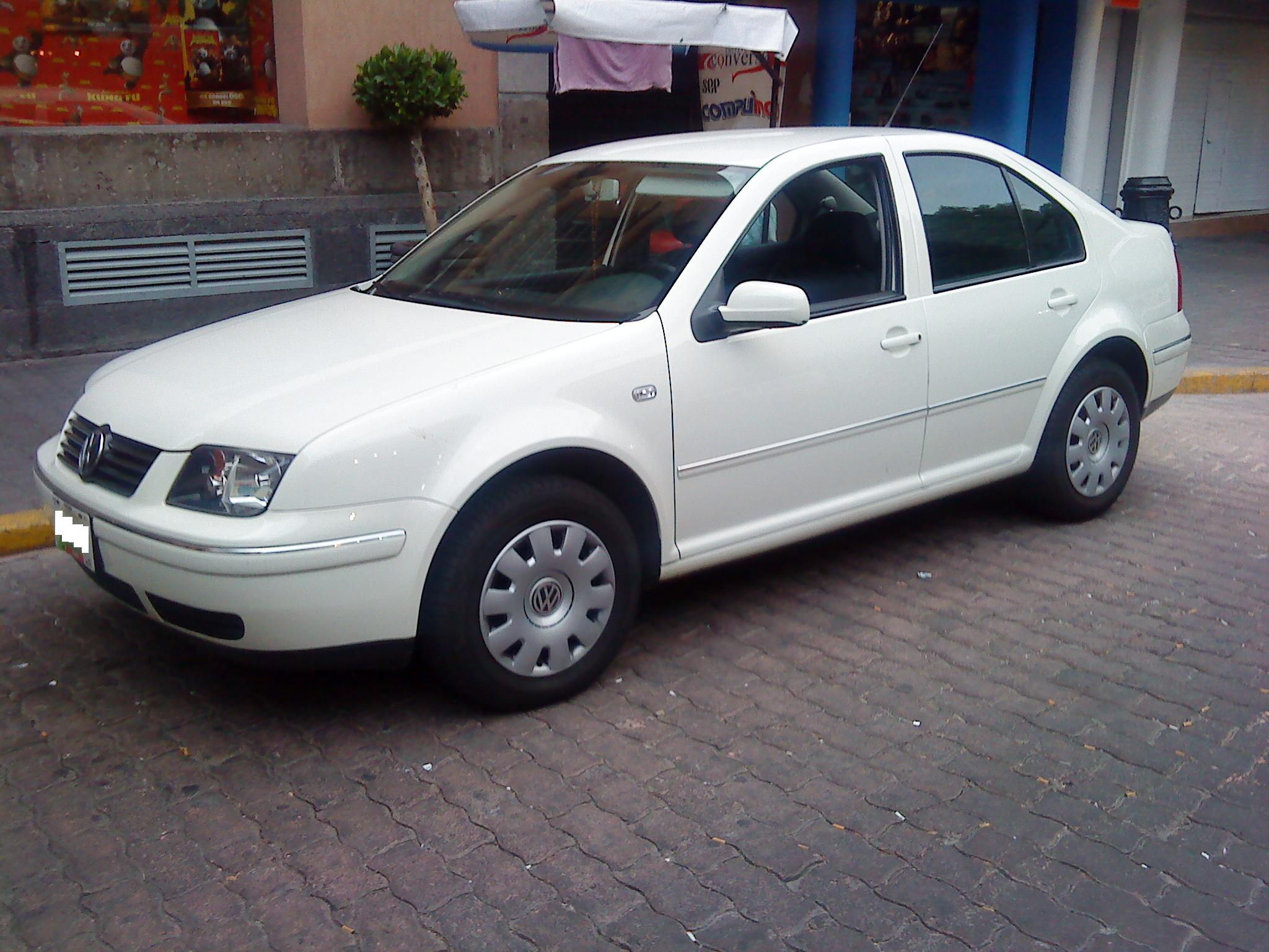 A 2007 Volkswagen Jetta Europa Campanella White